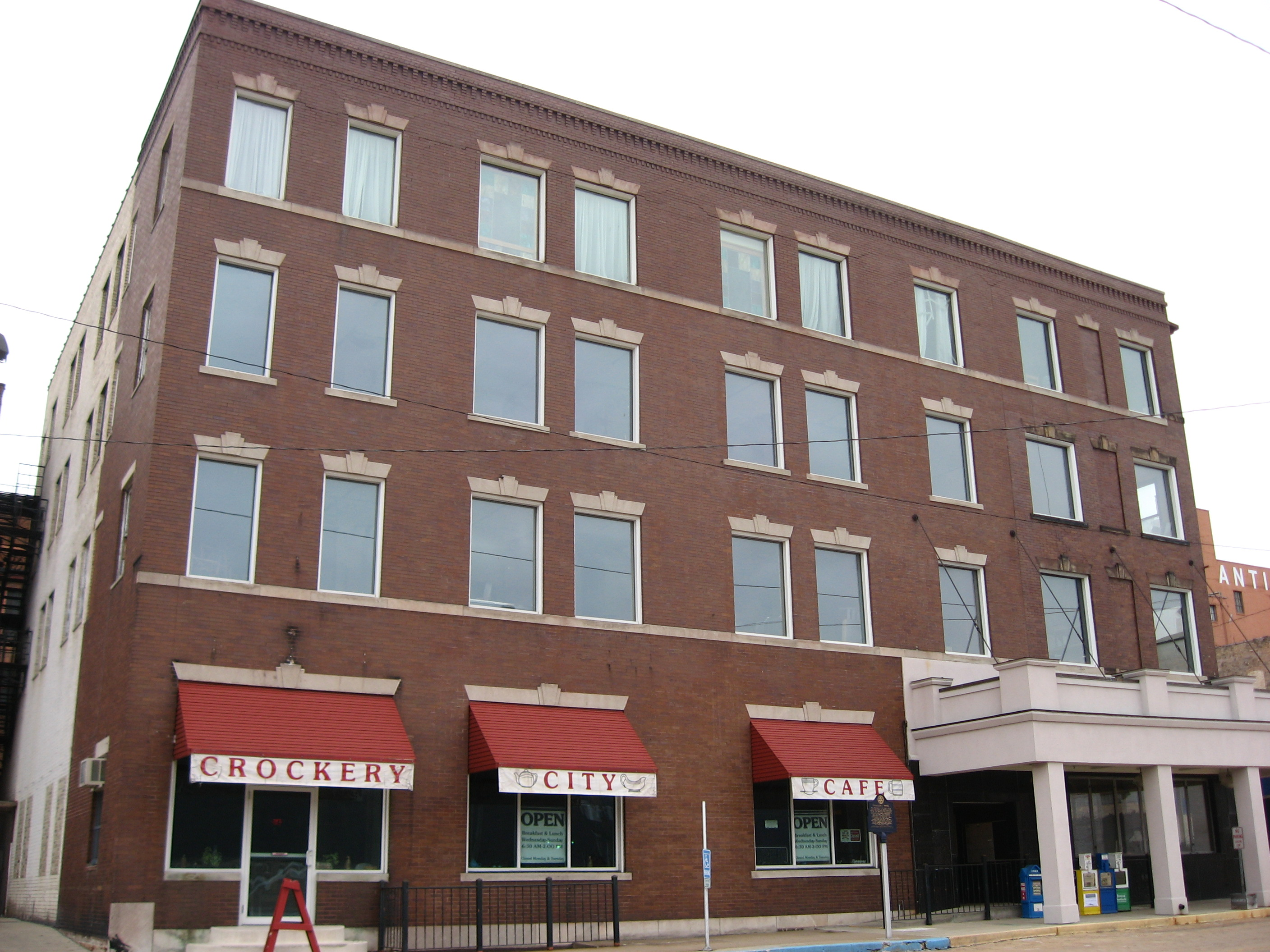 The Travelers Hotel, located at 115 East Fourth Street in downtown East Liverpool, Ohio, United States. Built in 1908, the hotel is listed on the National Register of Historic Places.